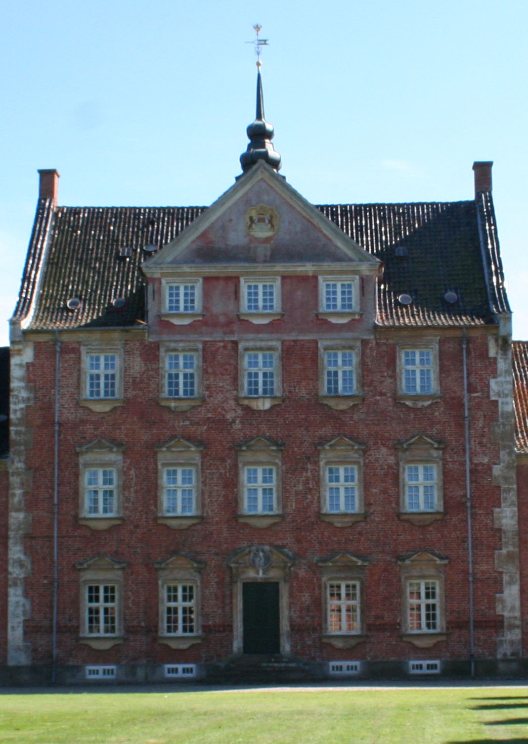 The danish castle Jægerspris Slot